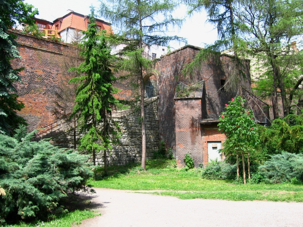 The fortification in "Bezrucovy sady" Park in Olomouc, Czech Republic